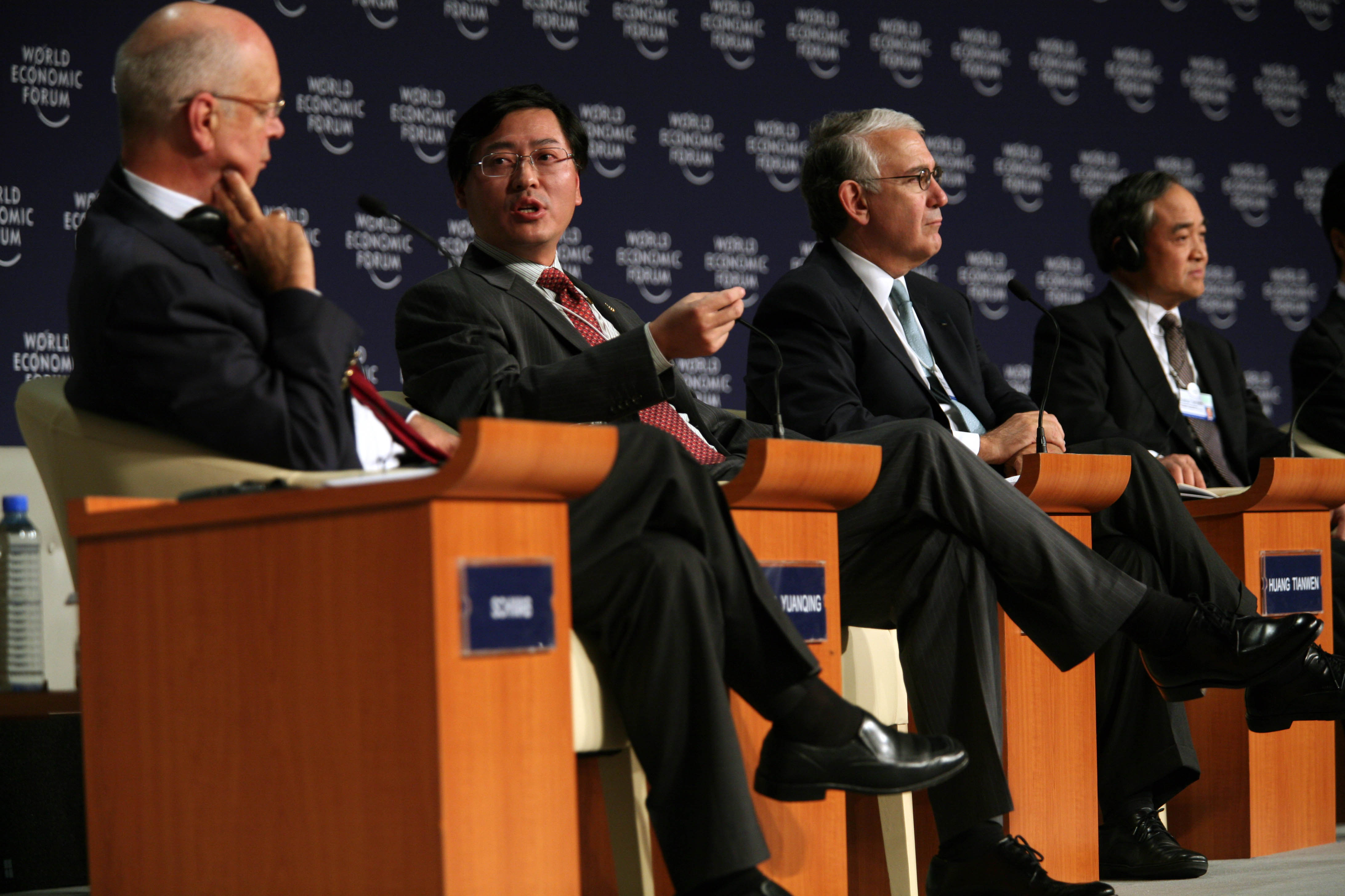 TIANJIN/CHINA, 28SEPT08 - Yang Yuanqing (second from left), Chairman of the Board, Lenovo, speaks From Global Growth Company to Corporate Global Citizen plenary session at the World Economic Forum Annual Meeting of the New Champions in Tianjin, China 28 September 2008. Copyright World Economic Forum ( by Natalie Behring